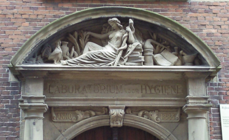 Hygieia (1883) by sculptor Emil Bourgonjon